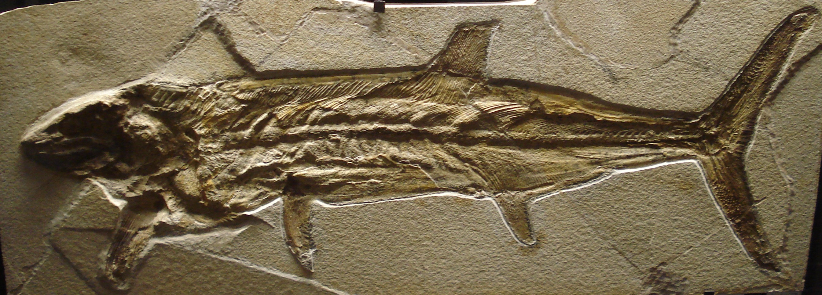 fossil of orthocormus